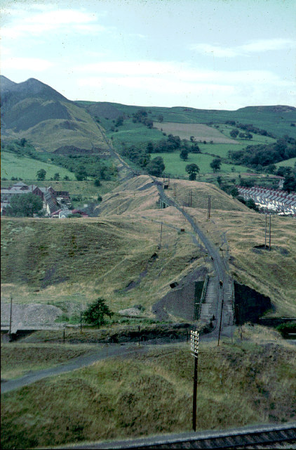 Aberfan Colliery spoil tramway. This photo was taken to show the tramway that took waste from Aberfan colliery to the spoil heaps high above the village. Two years later, the spoil heaps collapsed destroying the school (the red brick building mid-left) and taking over a hundred lives, mostly children.